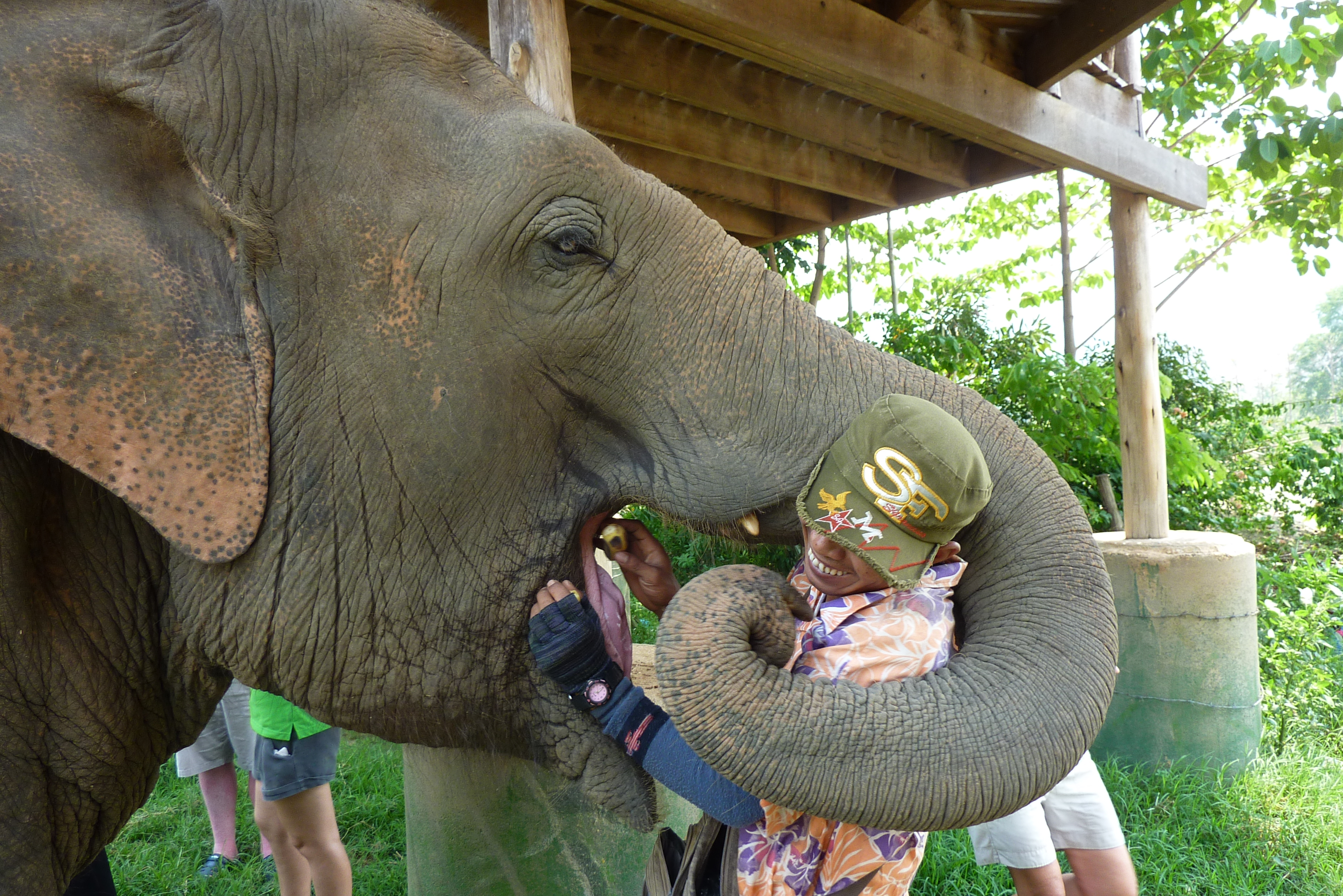 A mahout feeding an elephant at the Elephant Nature Park, near Chiang Mai, Thailand.